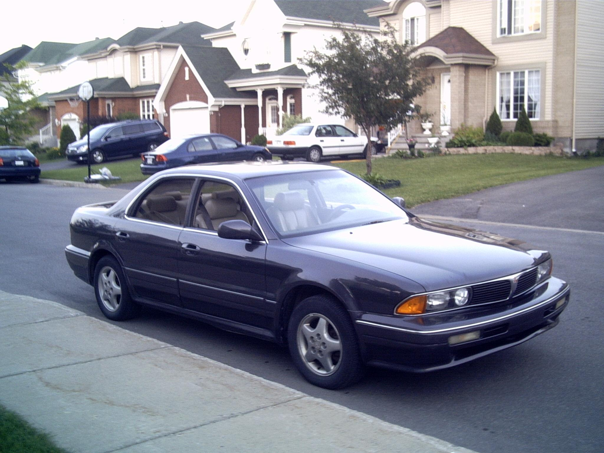 1992–1996 Mitsubishi Diamante LS sedan, photographed in Quebec, Canada.